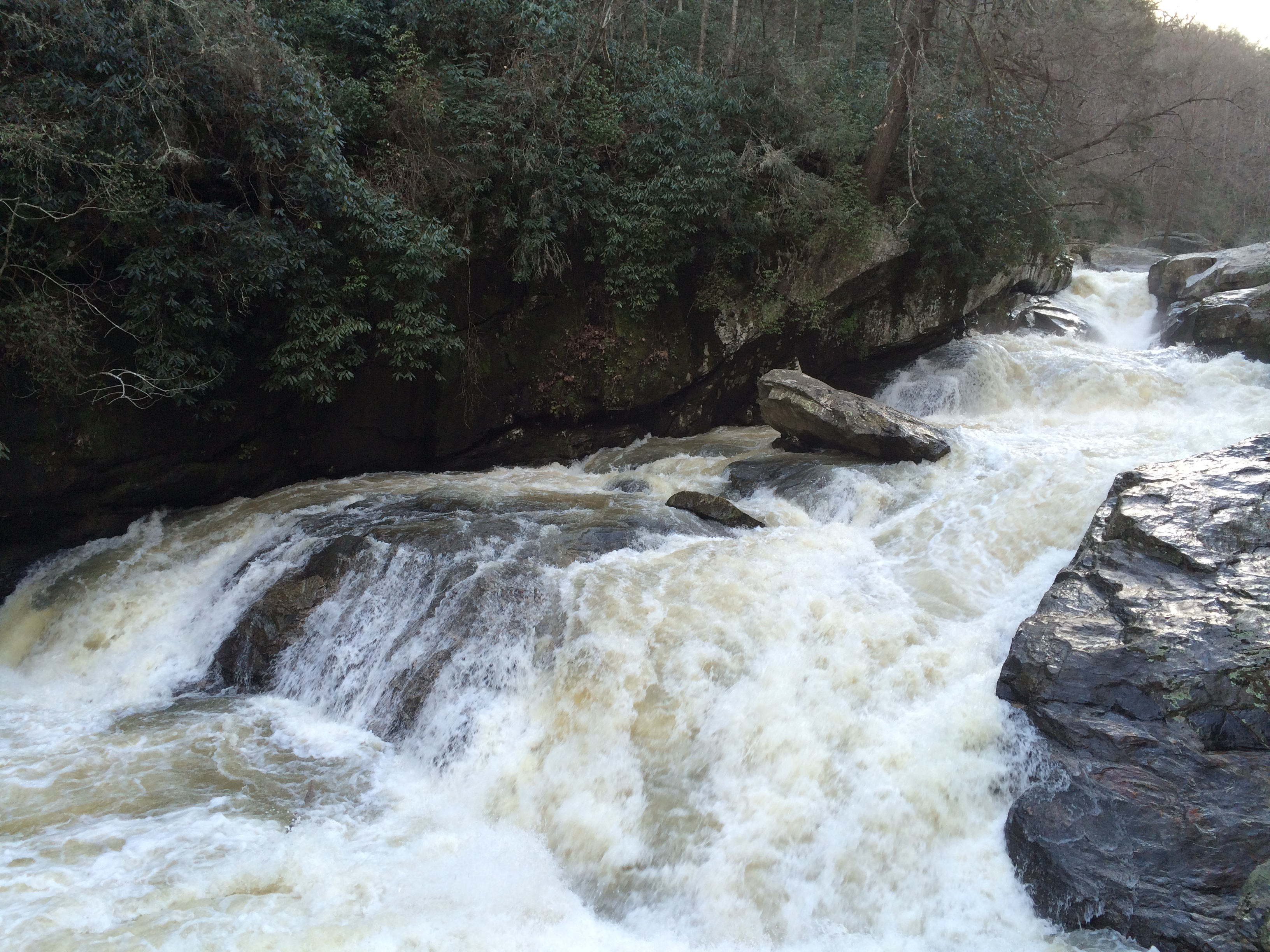 Green River Narrows at 24 inches on the stick gauge.